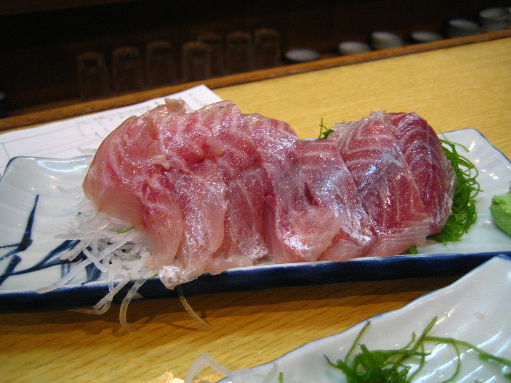 Sashimi of chicken grunt (Isaki)